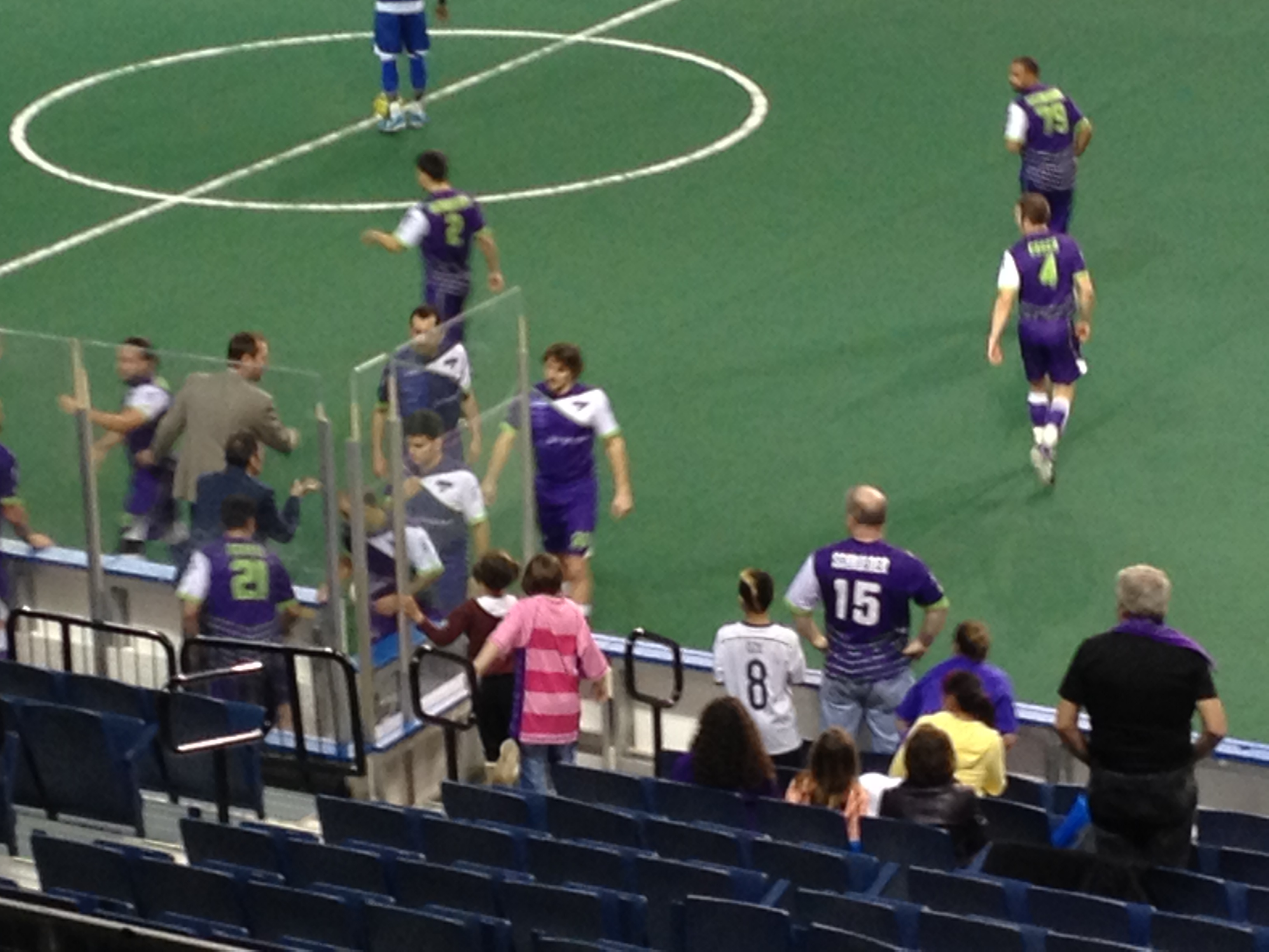 MASL Dallas Sidekicks at Ford Arena in Beaumont, Texas